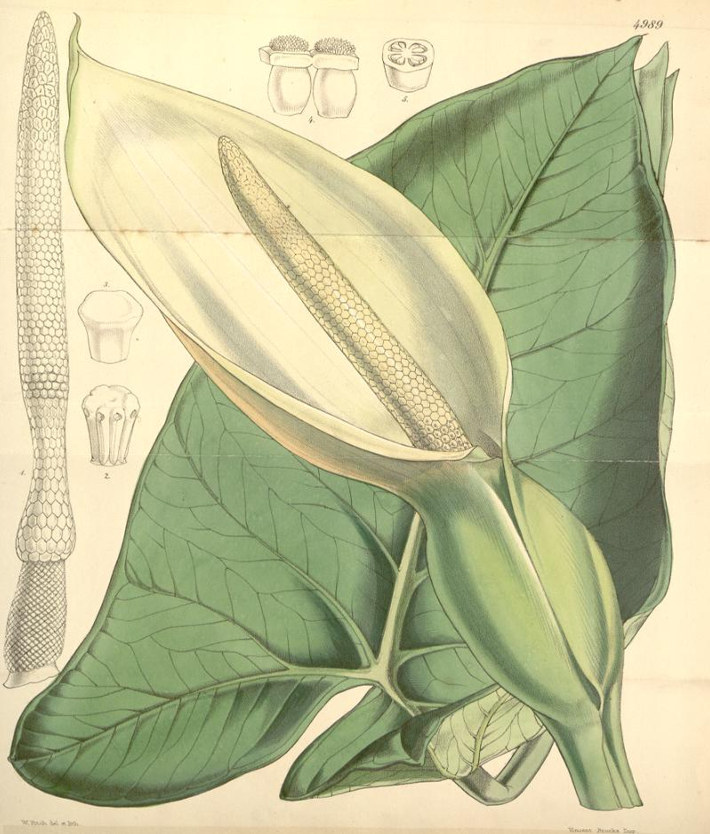 Illustration of Xanthosoma sagittifolium